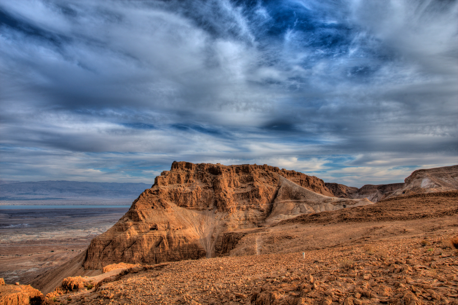 Masada (Hebrew מצדה, pronounced Metzada, from מצודה, metzuda, \"fortress\") is the name for a site of ancient palaces and fortifications in the South District of Israel on top of an isolated rock plateau, or large mesa, on the eastern edge of the Judean Desert over